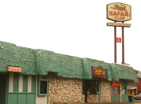 Safari Club in downtown Estacada